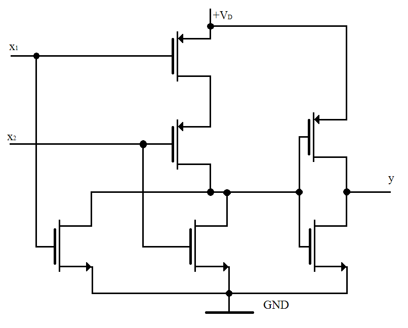 VÕI-loogikaelement